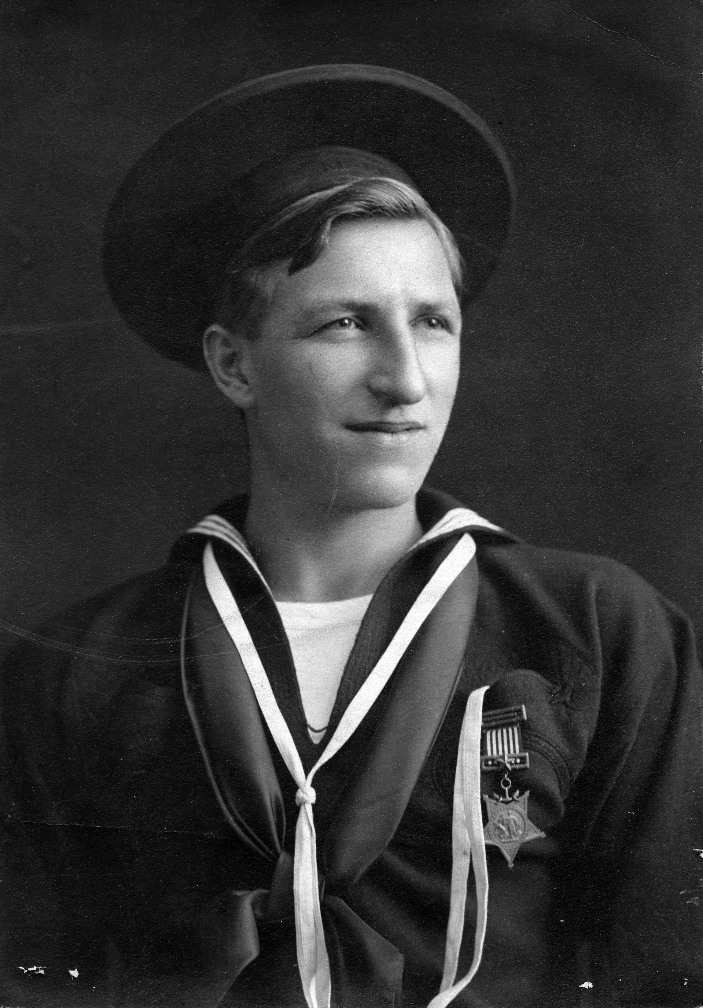 Photograph # UA 559.16.01 — Medal of Honor Recipient Edward William Boers